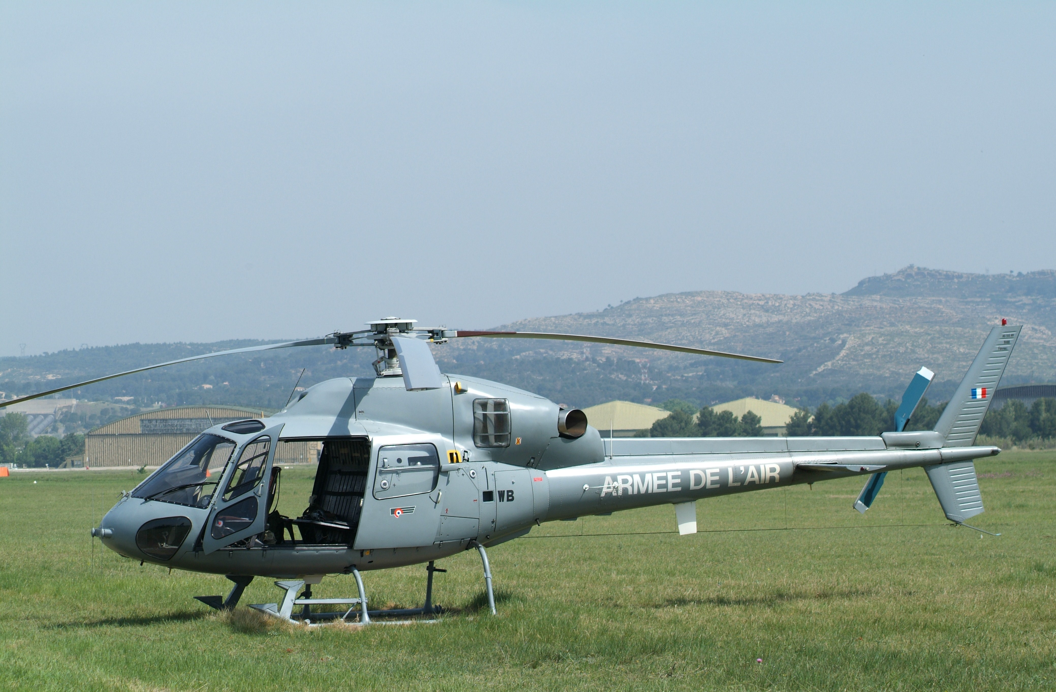 Istres is the main French Test base nowadays but detachments of these fairly anonymous grey liaison helciopters are based at several bases in continental France and the various overseas territories.